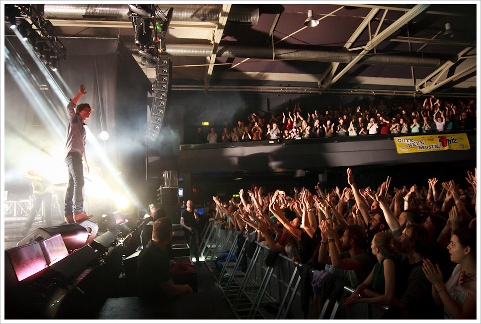 21.11.2013. Phoenix live in Berlin, Columbiahalle